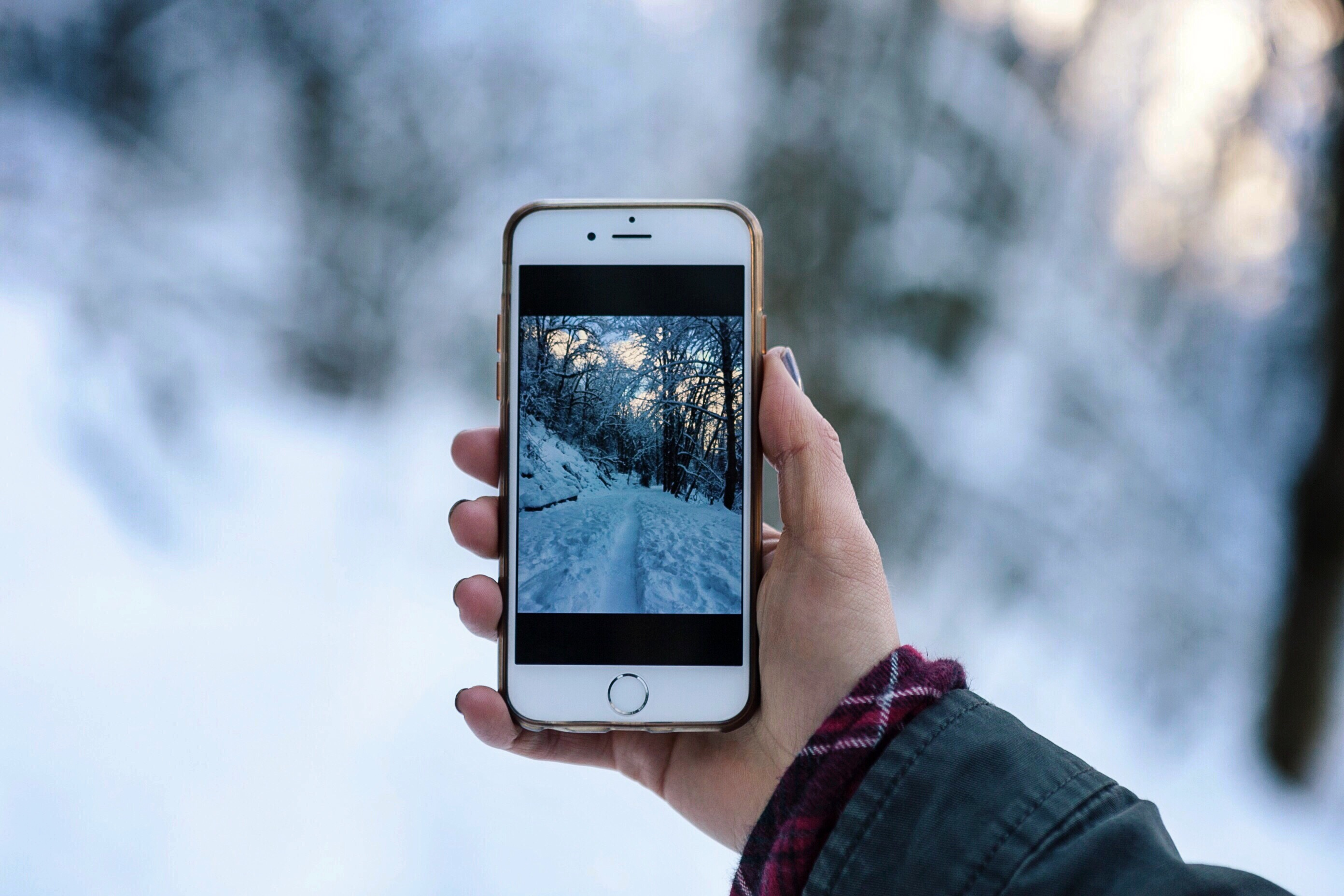 Othello Tunnels, Hope, Canada